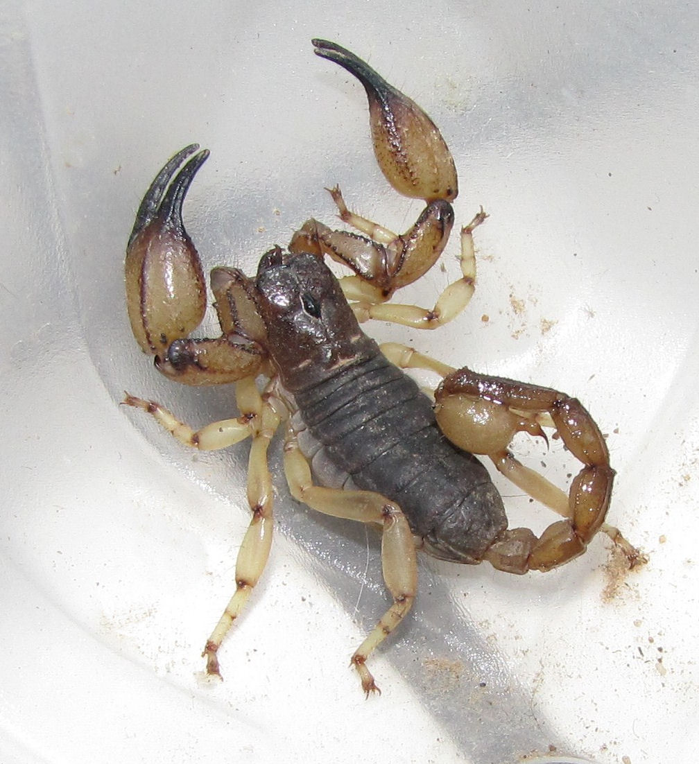 Anuroctonus pococki (California swollenstinger scorpion), bump before stinger indicates it is a male Location: Near Santiago Oaks Park, Orange, CA